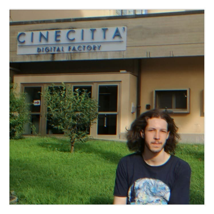 Alfredo Sirica at Cinecittà in 2019, working on the TV animated series "Lampadino e Caramella"